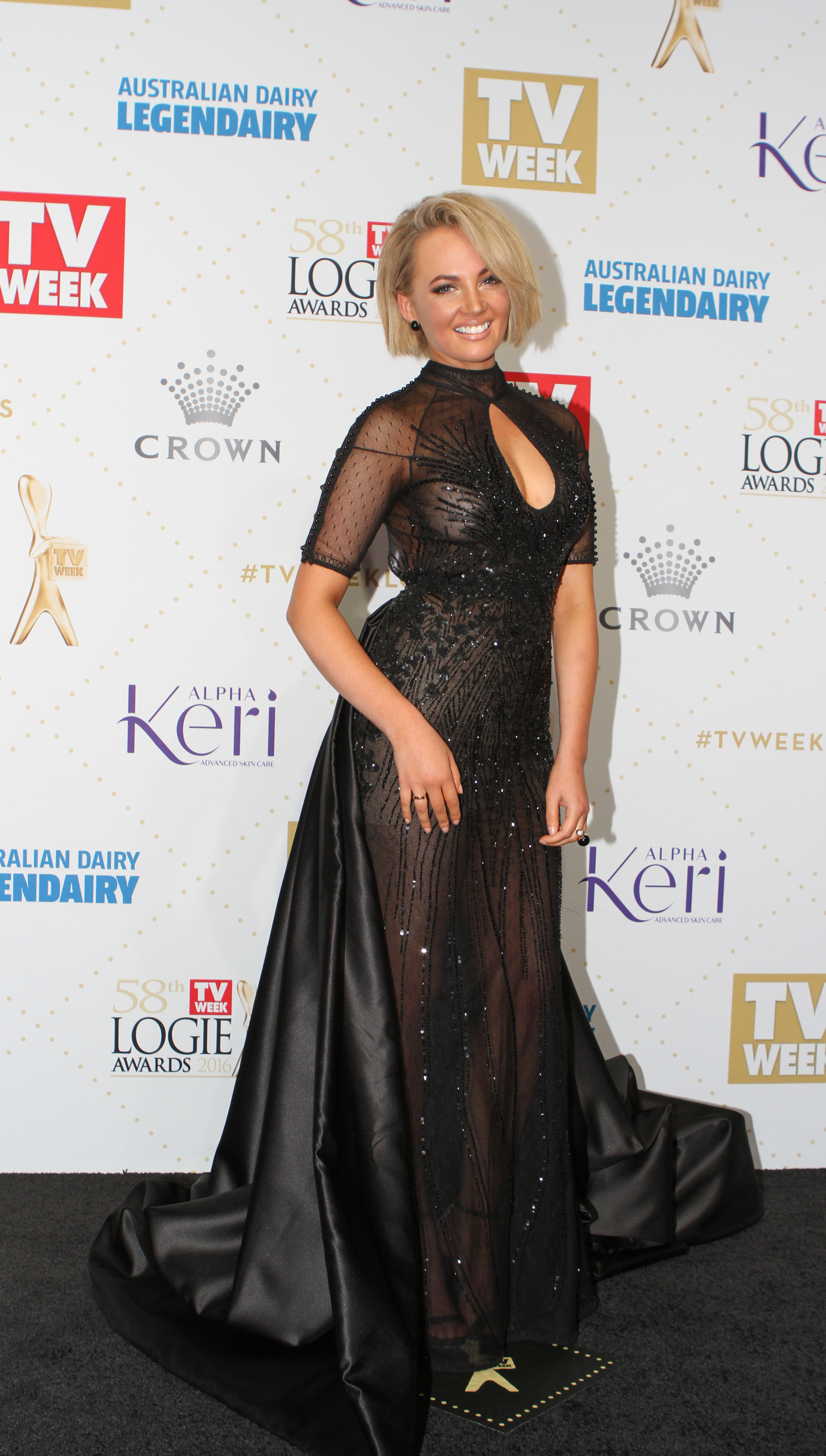 Samantha Jade TV Week Logie Awards 58th Annual Crown Palladium